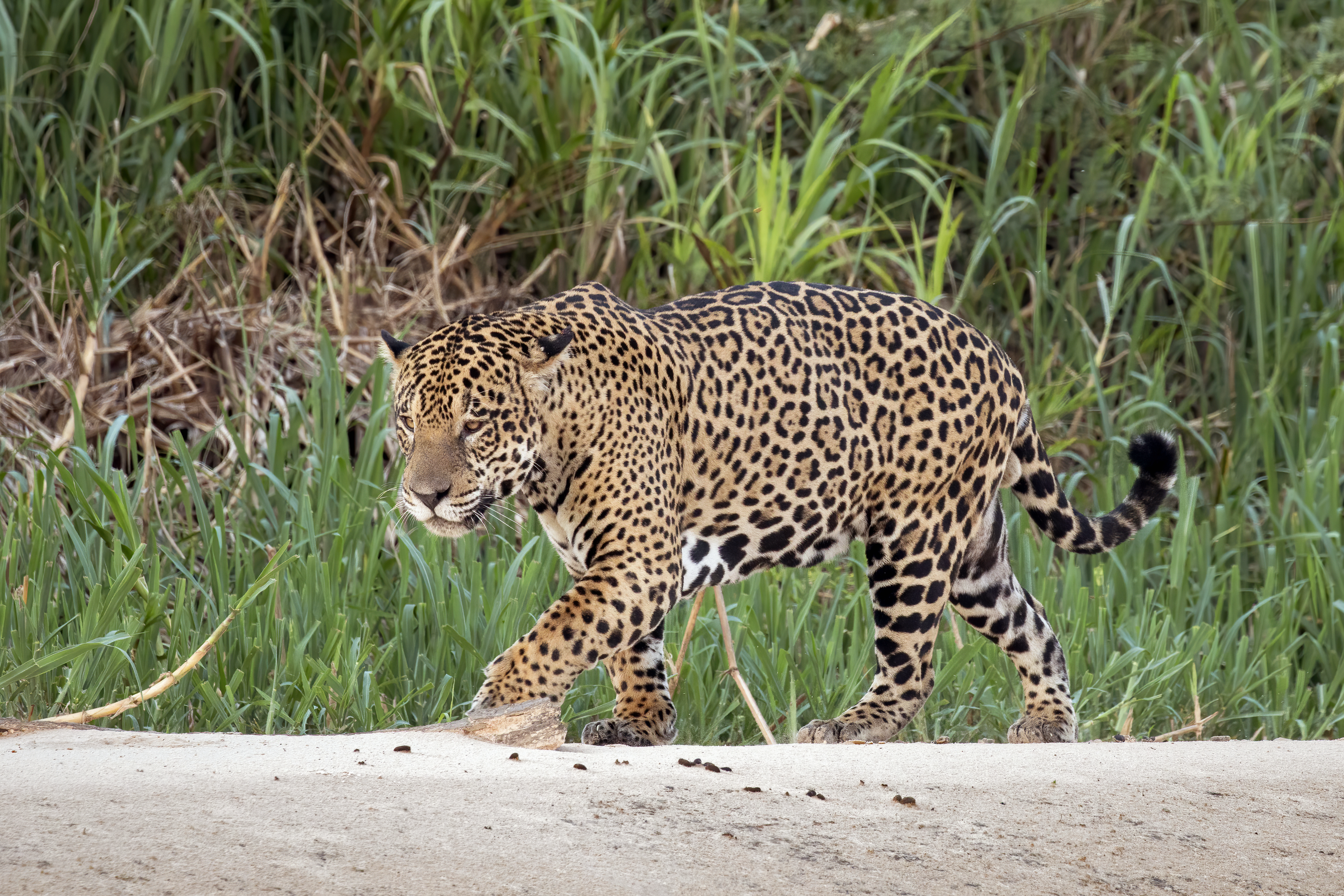 Jaguar (Panthera onca palustris) male, Three Brothers River, Pantanal, Brazil